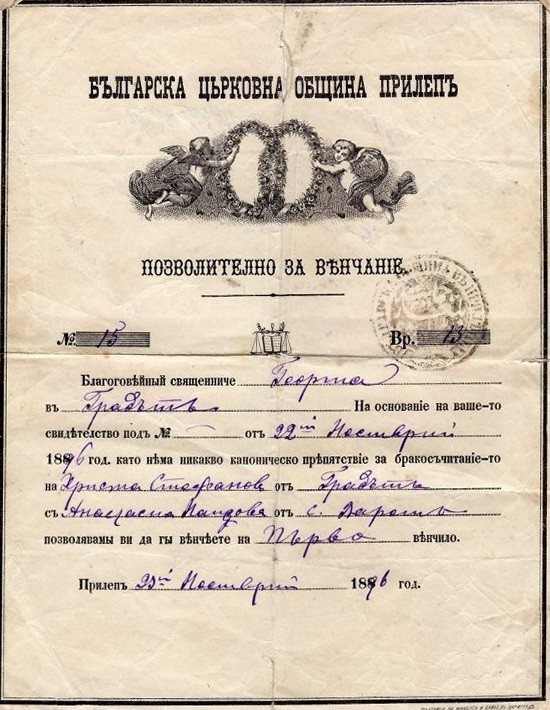 Prilep Bulgarian Municipality Marriage Permit of Hristo Stefanov and Anastasia Naumova 1896